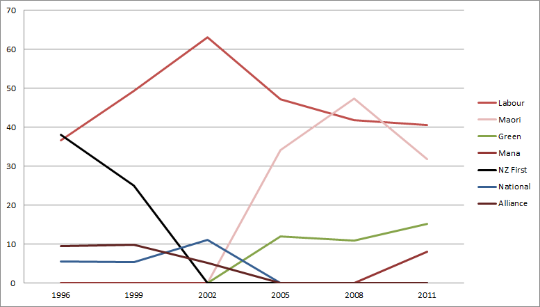 Electoral results of the New Zealand electorate of Te Tai Tonga since 1996. Labour Party Māori Party Green Party Mana Party New Zealand First National Party Alliance